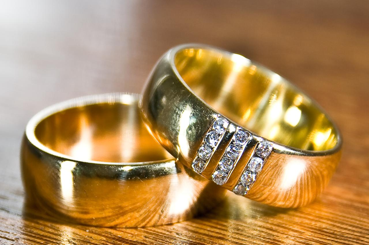 YN-460 camera right 1/8th with diffuser and bouncer Camera's pop up flash -2 EV to trigger YN-460 A DIY silver bouncer behind, made with a shoe box lid and tin foil Window camera left with a nice daylight Manual: Page 47. Basic Zone Mode Images